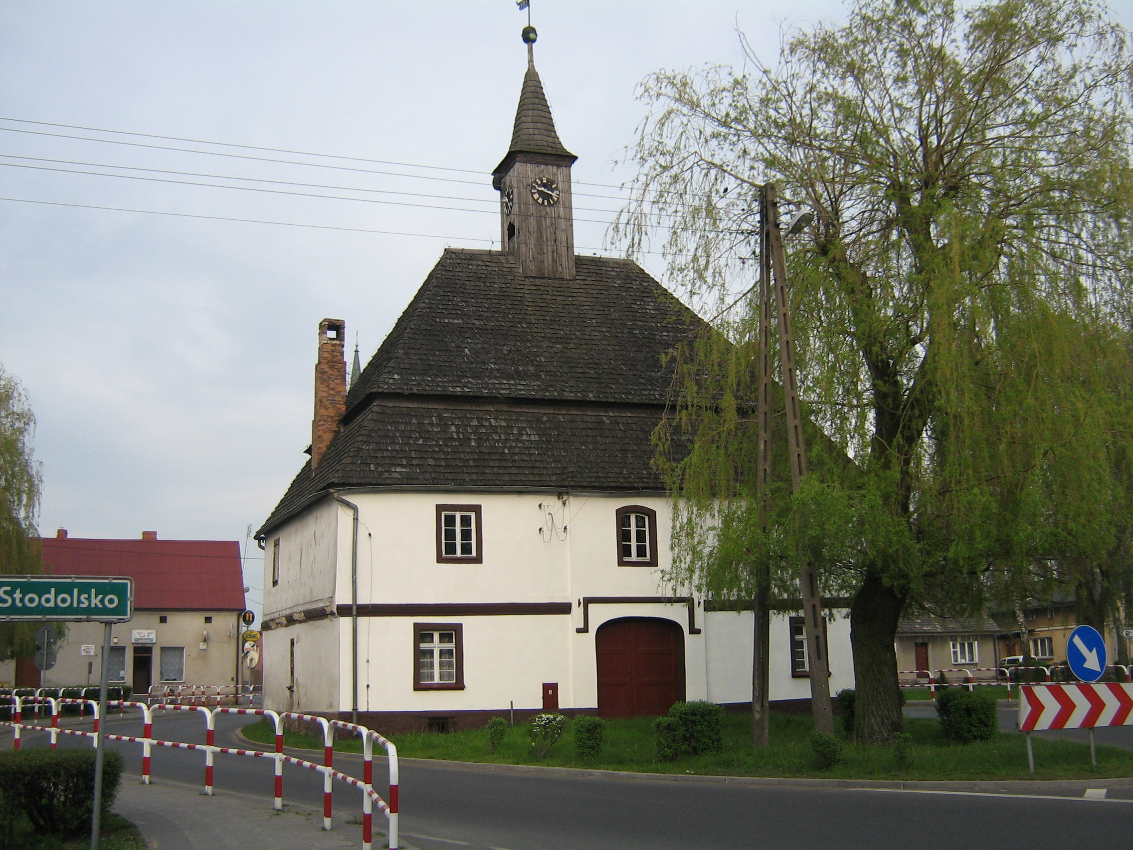 Old town hall in Rostarzewo (Poland)